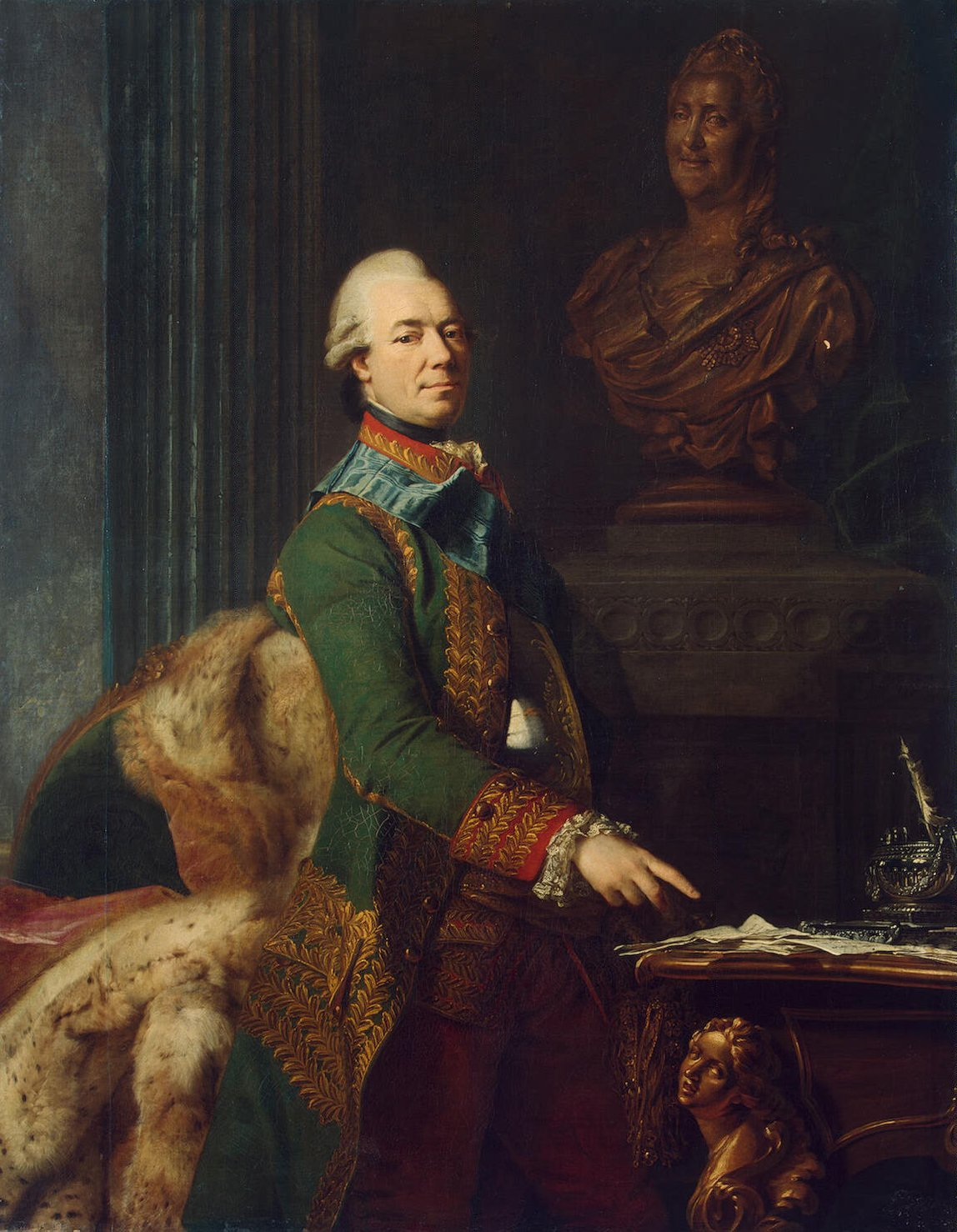 Portrait of Count Chernyshev (1722-1784)label QS:Lru,"Портрет графа Чернышёва" label QS:Len,"Portrait of Count Chernyshev (1722-1784)"